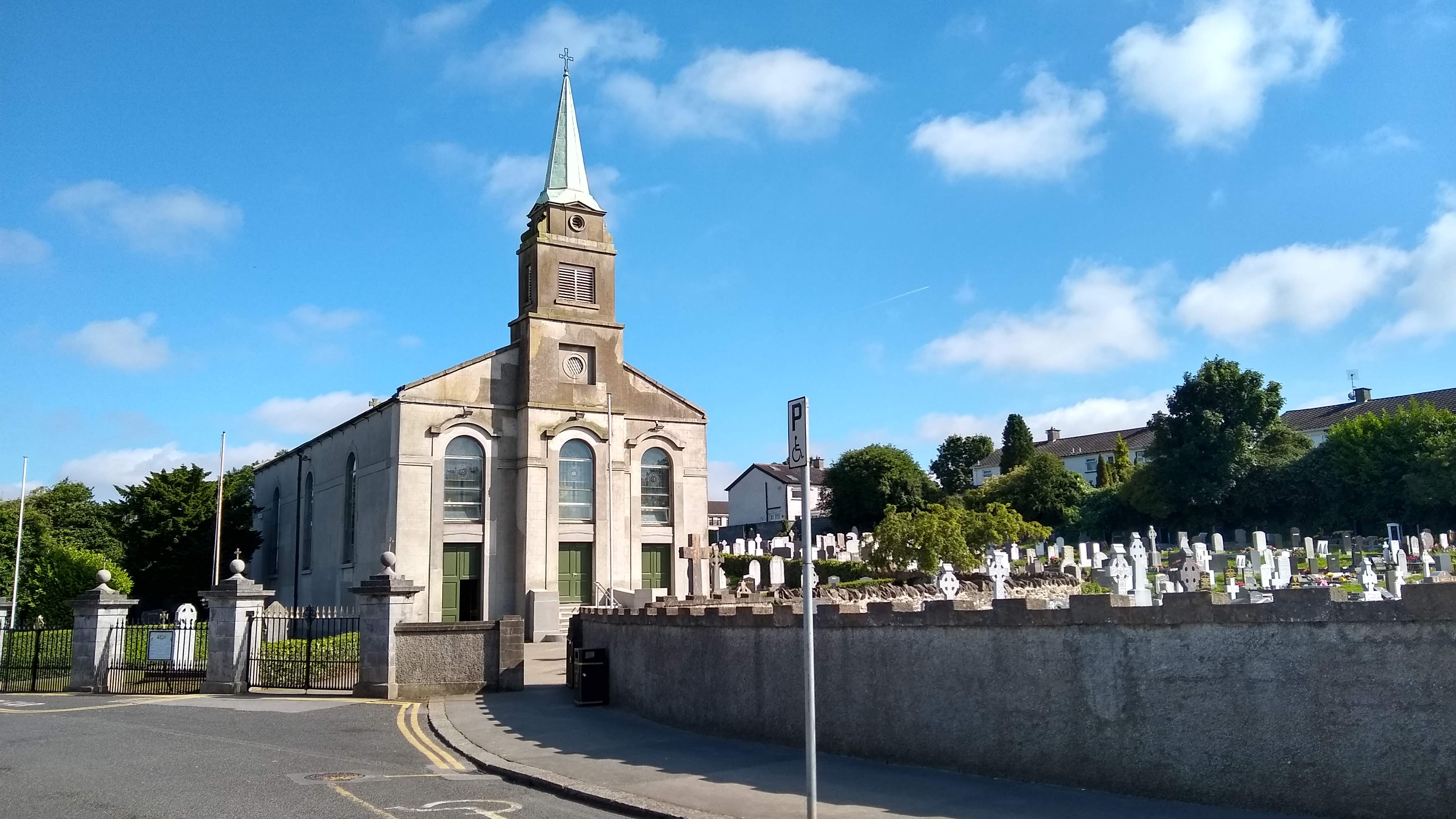 St Colmcille's RC Church and graveyard